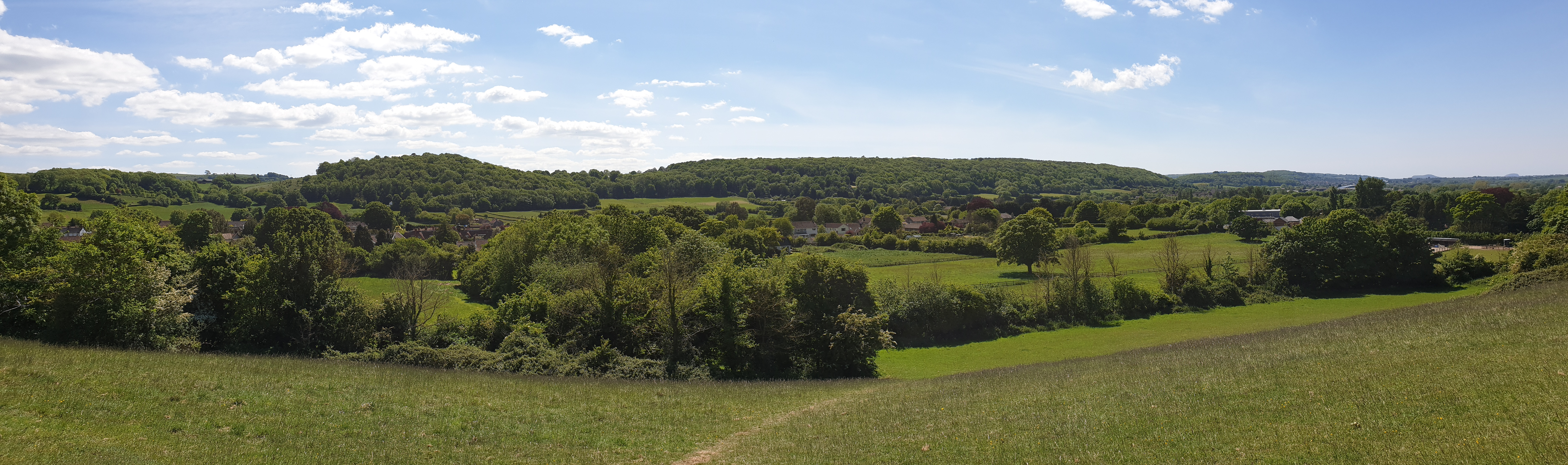 Panorama of Churchill village taken from Windmill Hill with the edge of Mendip Hills in the background